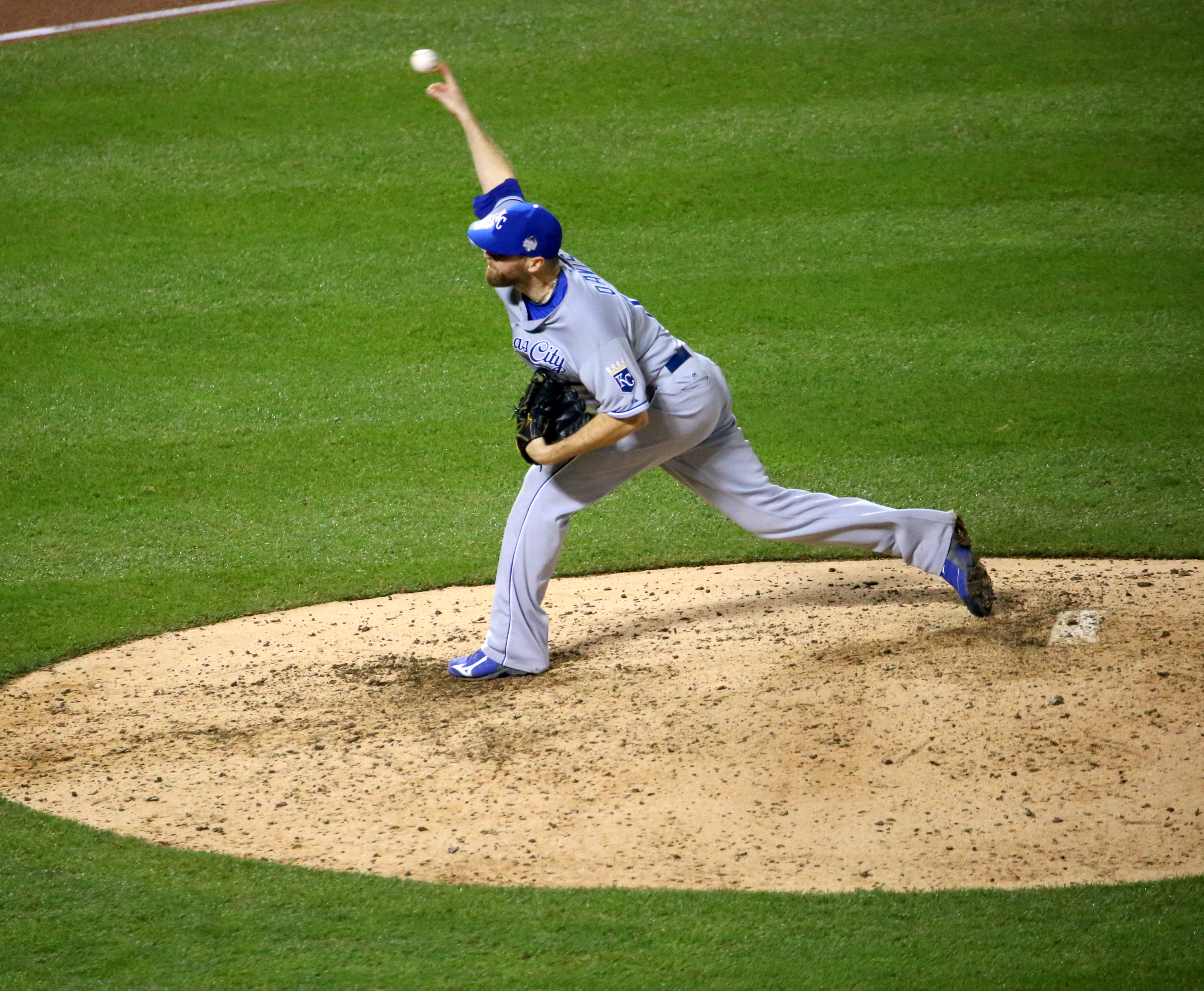 Royals closer Wade Davis finishes off #WorldSeries Game 5.